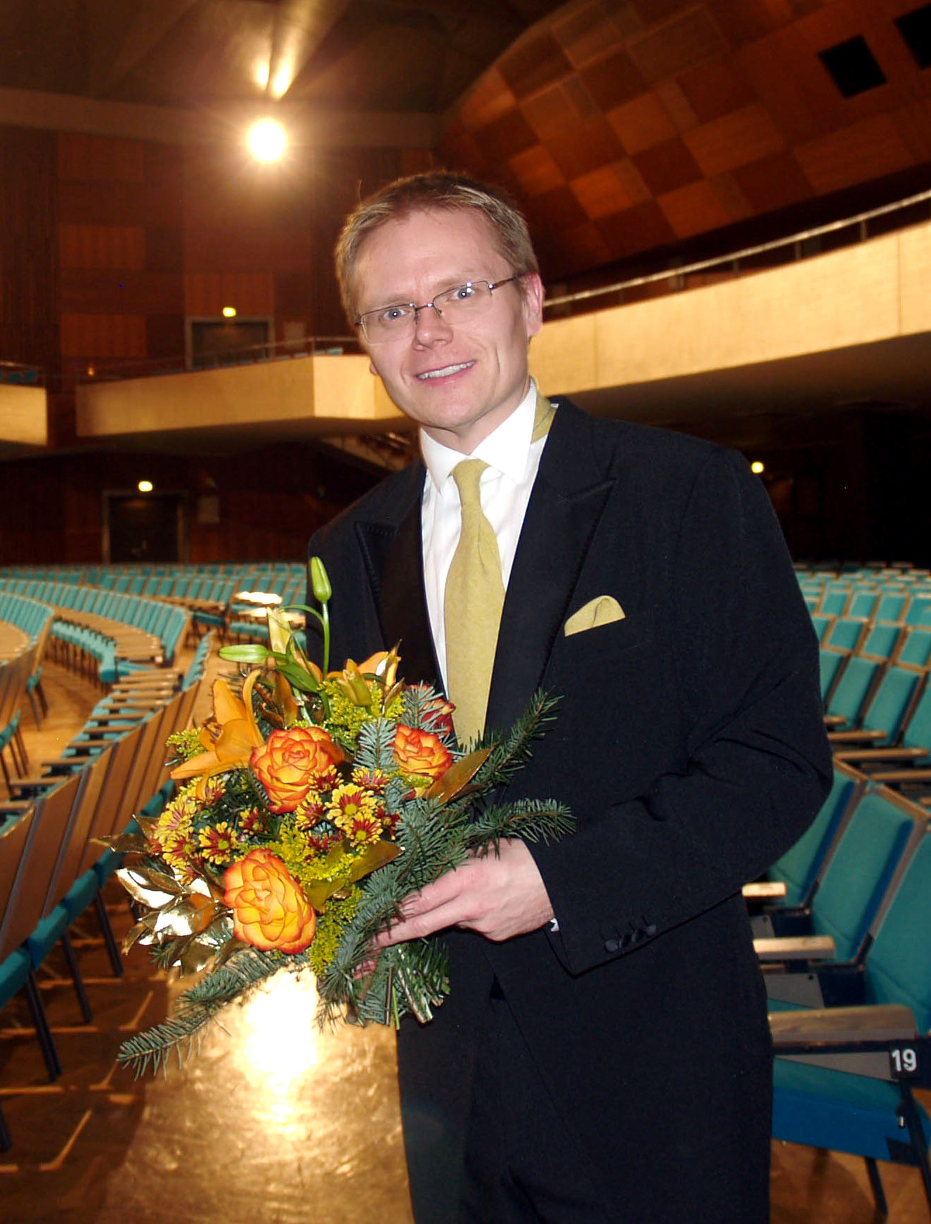 Conductor Jakub Martinec in Meistersingerhalle, Nuernberg.